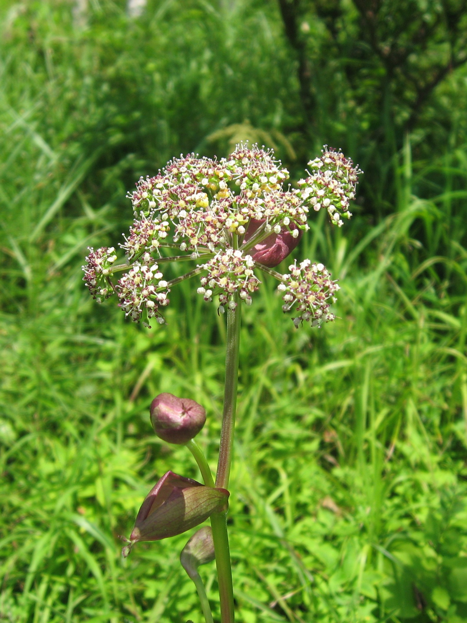 Angelica decursiva, Aizu area, Fukushima pref., Japan